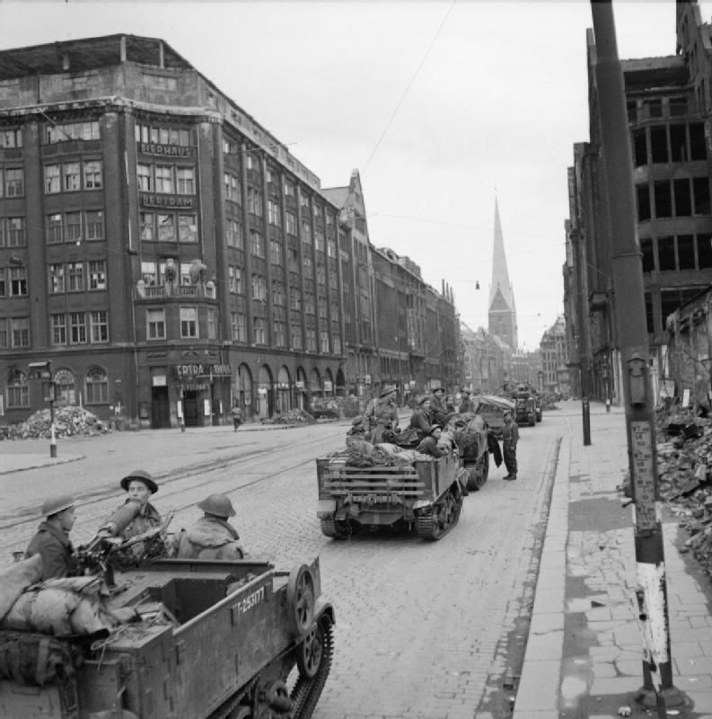 The British Army in North-west Europe 1944-45 Universal carriers of 1/5th Queen's Regiment, 7th Armoured Division in Hamburg.